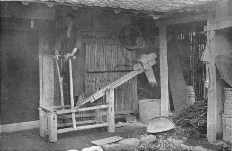 Rice polishing by foot power. "Half-polished rice may be prepared with two or three hundred blows of the mallet; fully polished or white rice may receive six, seven or eight hundred, or even it may be a thousand blows." (p.79)